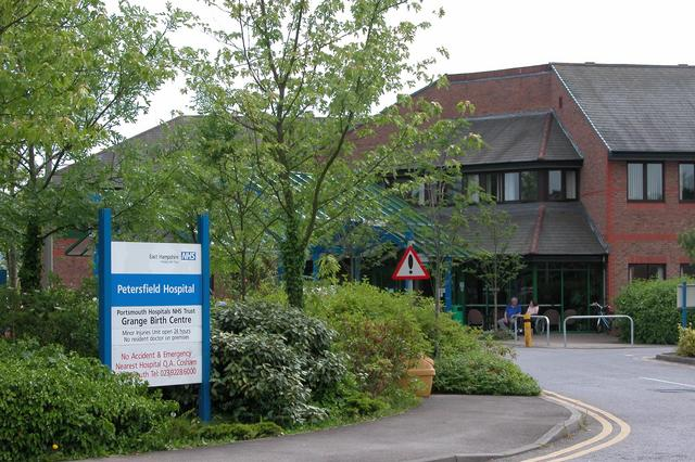 Petersfield Hospital. Petersfield Hospital has a small Maternity unit, where my youngest daughter was born - aahhh.